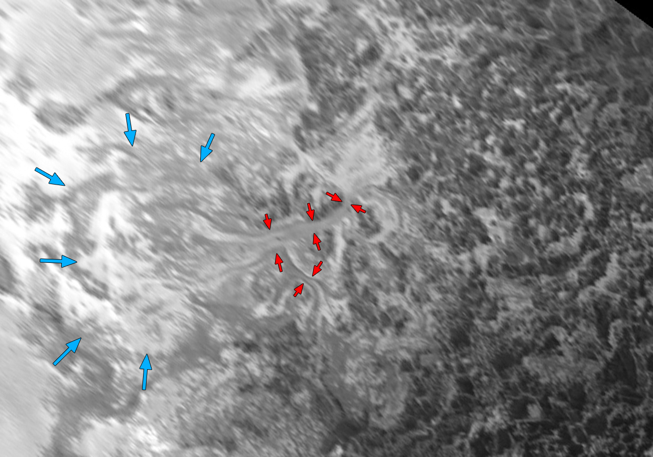 Ice (probably frozen nitrogen) that appears to have accumulated on the uplands on the right side of this image is draining from Pluto’s mountains onto the informally named Sputnik Planum through the 2- to 5-mile (3- to 8- kilometer) wide valleys indicated by the red arrows. This image is re-projected from the oblique, backlit view shown in the new crescent image of Pluto. The backlighting highlights the intricate flow lines on the glaciers. The flow front of the ice moving into Sputnik Planum is outlined by the blue arrows. The origin of the ridges and pits on the right side of the image remains uncertain. This image is 390 miles (630 kilometers) across.